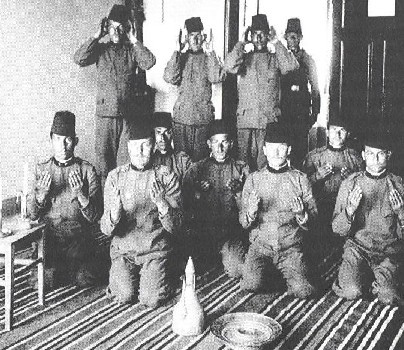 Muslim soldiers from the unit BH3 (Austro-Hungarian Army ) in the mosque.